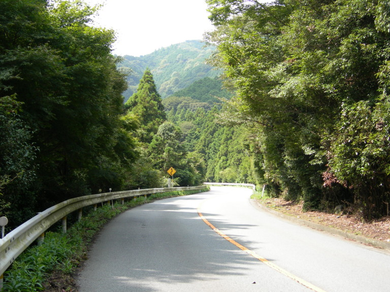 Mie prefectural route No.32, between Ise city and Shima city in Japan.